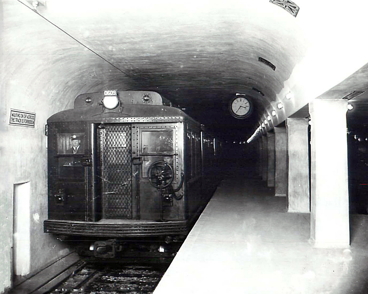 A Cambridge Tunnel (today's Red Line) train in the old Harvard station on March 20, 1912 - three days before the line opened to the public.